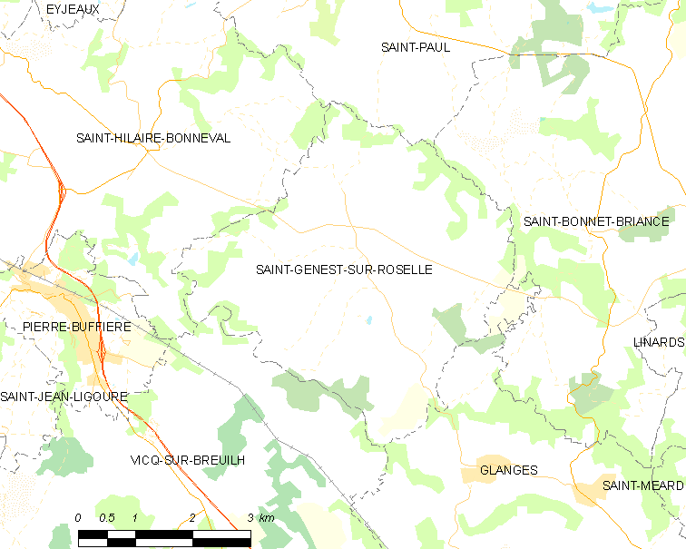 Map of French municipality Saint-Genest-sur-Roselle